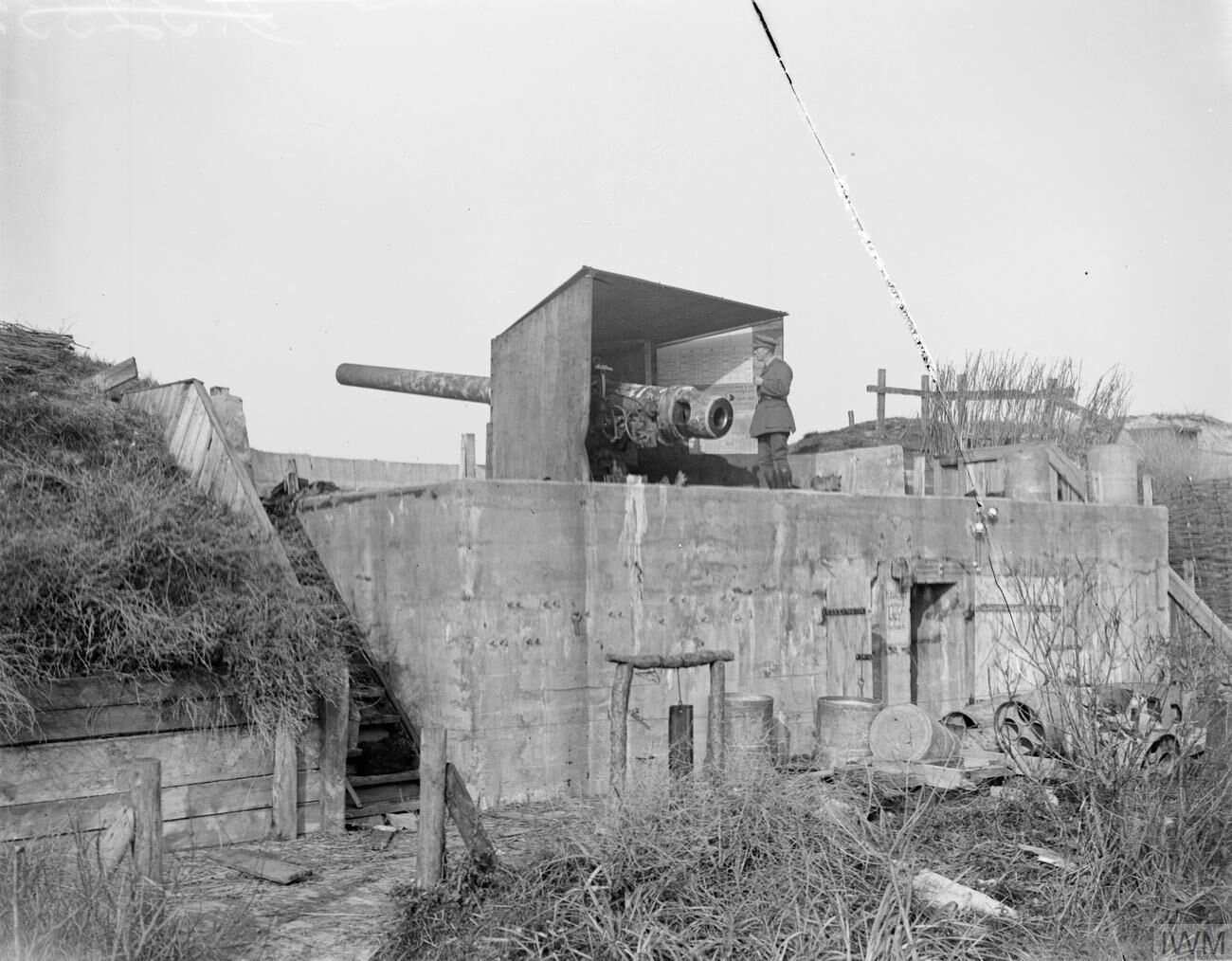 Photograph of a 15 cm gun of the German Kaiserin Battery at Zeebrugge, Belgium